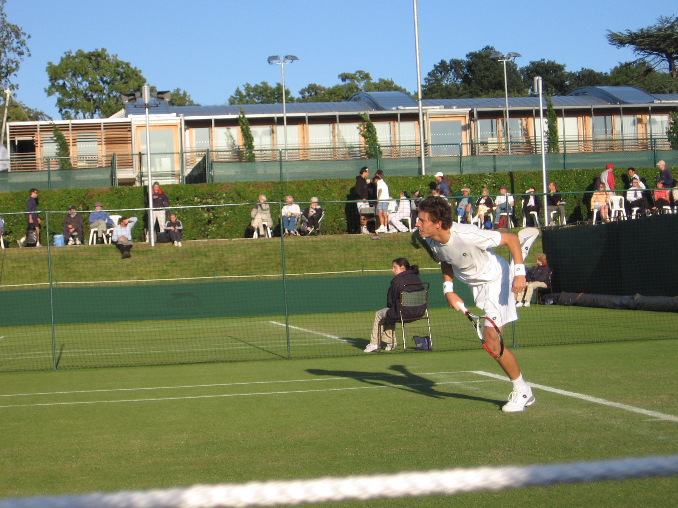 Nicolas Mahut during Wimbledon qualifications in 2008.